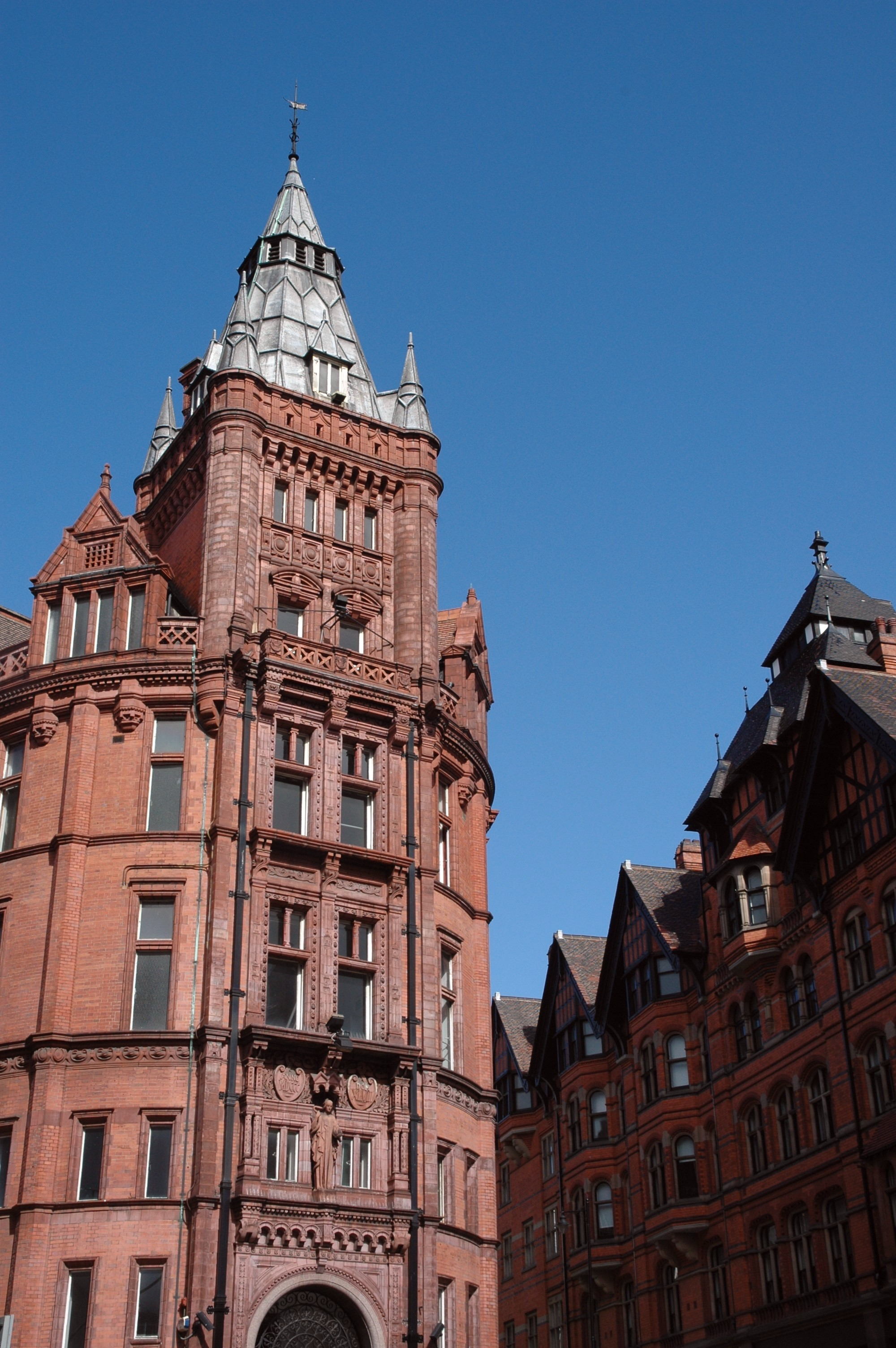 King Street, Nottingham, with Alfred Waterhouse's and Watson Fothergill's buildings